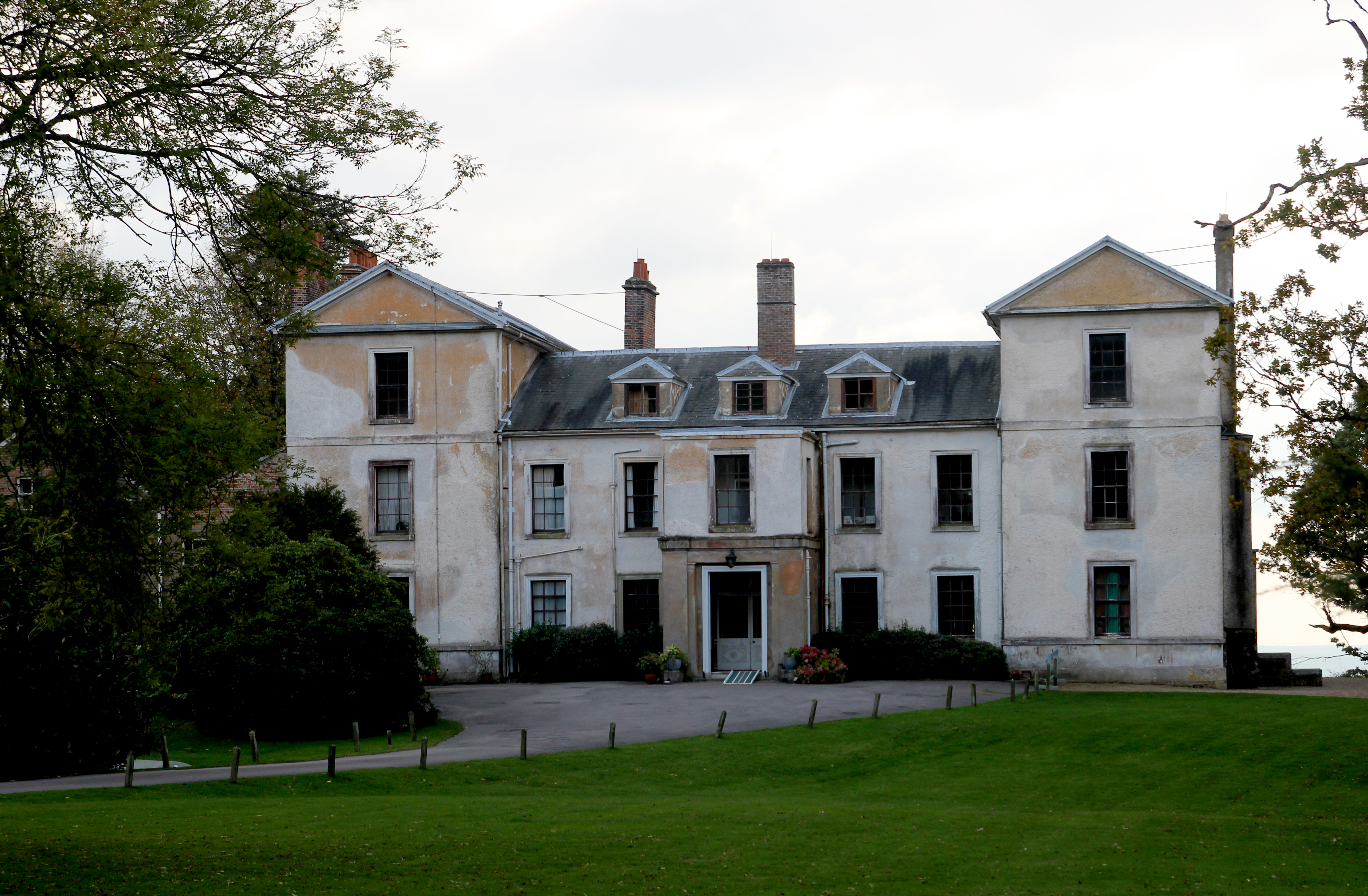 Leith Hill Place, Surrey, childhood home of the composer W:Ralph Vaughan Williams. Vaughan Williams bequeathed the house to the National Trust in 1944.